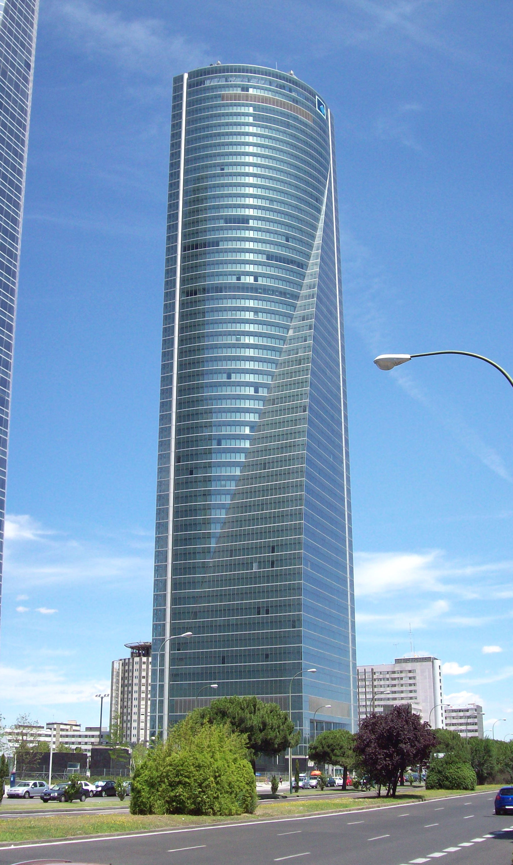 View of Torre Espacio in Cuatro Torres Business Area (Madrid, Spain) from the south-east angle. Image taken from Paseo de la Castellana (avenue).